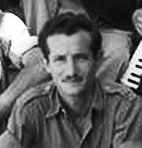 The CHIZBATRON was formed by PALMACH members, and was the official army entertainment troupe.